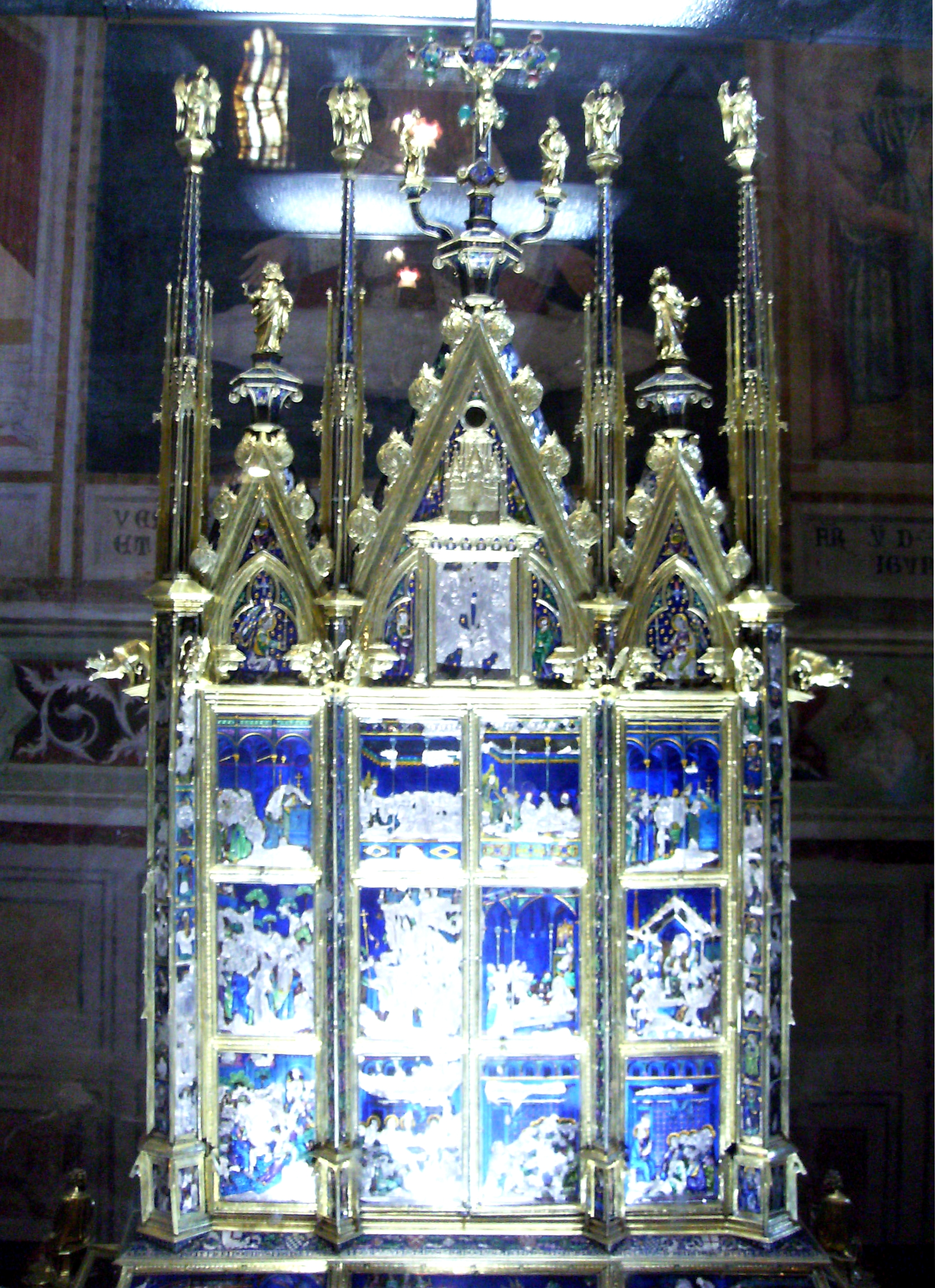 duomo orvieto - in reliquario del corporale